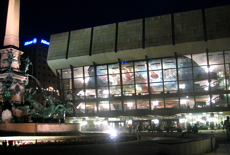 Leipzig, Germany: Neues Gewandhaus, Augustusplatz, with the foyer ceiling painting by Sighard Gille visible, in the foreground: Mendebrunnen fountain